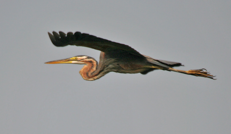 Purple Heron Ardea purpurea in Kolkata, West Bengal, India.